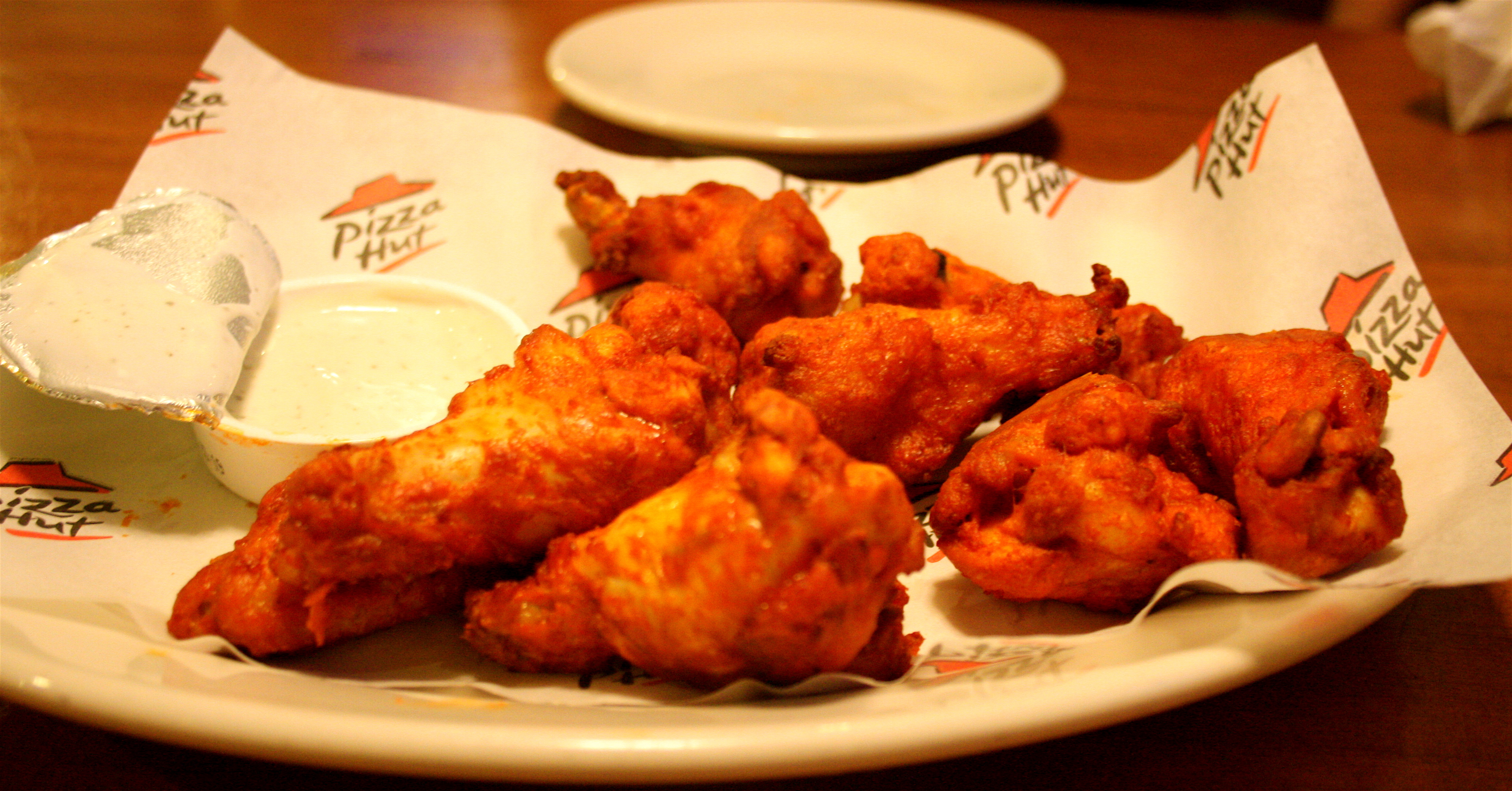 Buffalo wings from a Pizza Hut in Portage, MI.